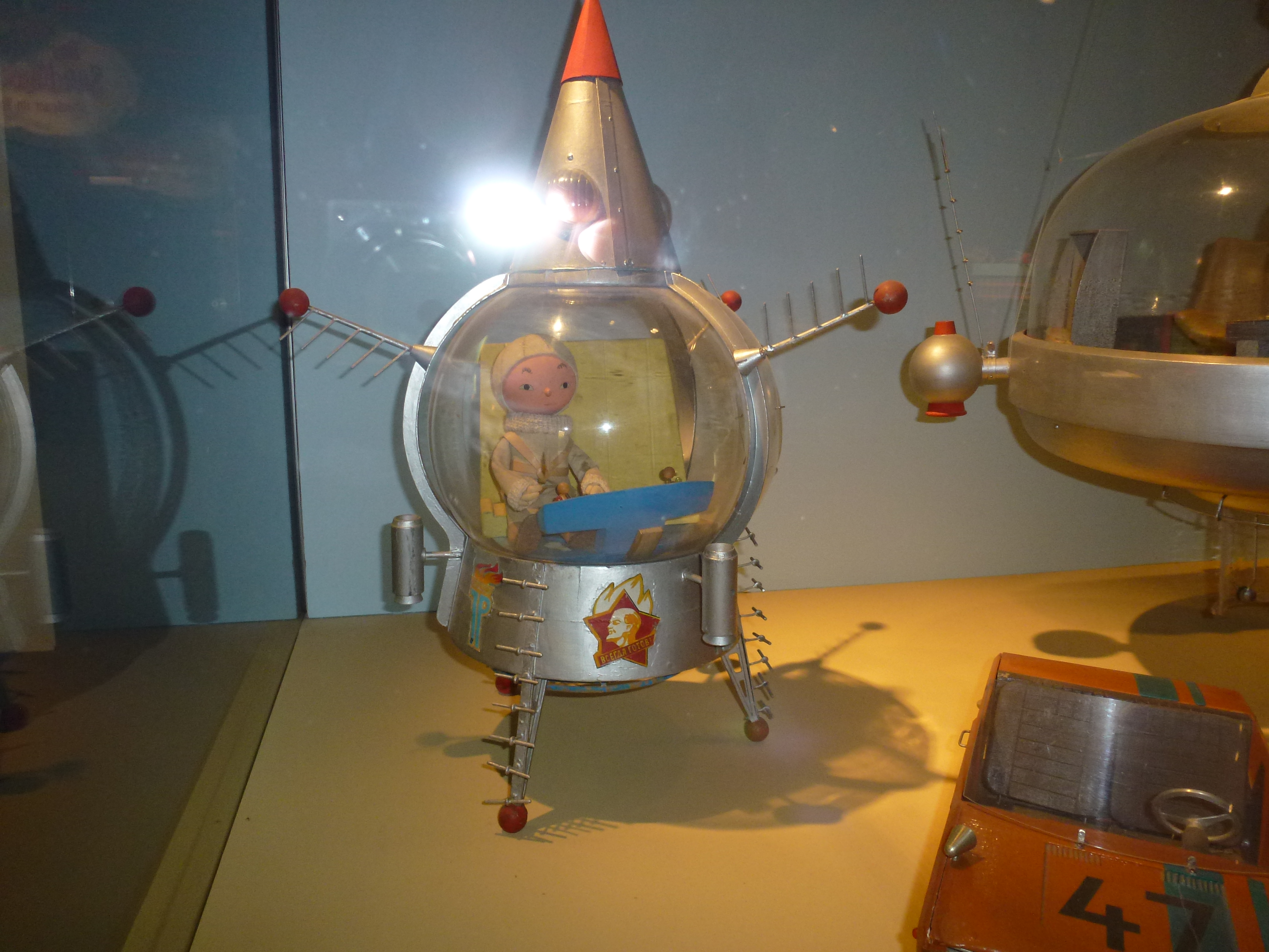 FilmPark Babelsberg - SandMann Movie Museum